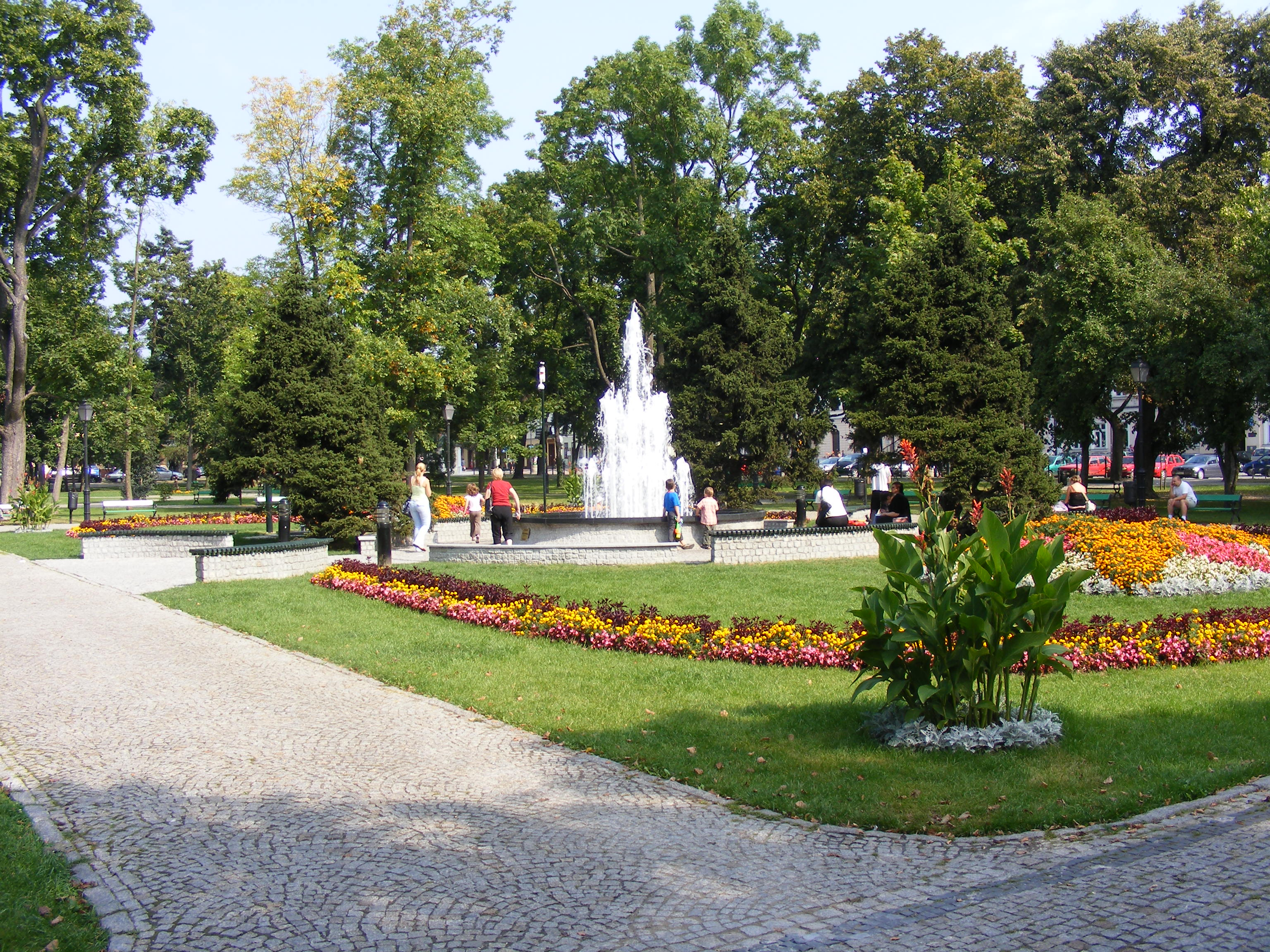 Park of the 3rd May Constitution in Suwałki.